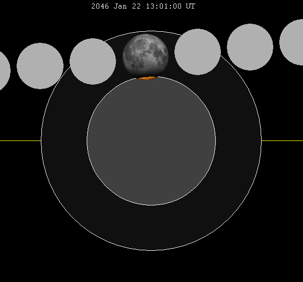 January 2046 lunar eclipse chart of moon's path through the earth's shadow. thumb